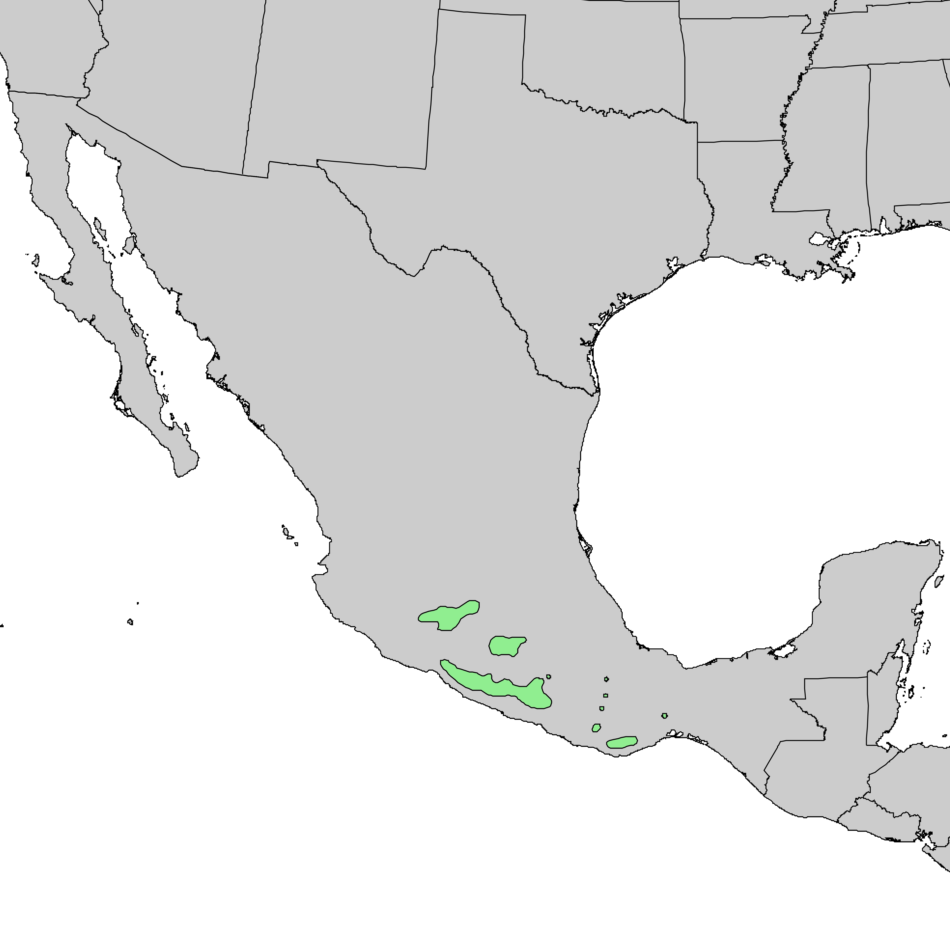 Natural distribution map for Pinus pringlei